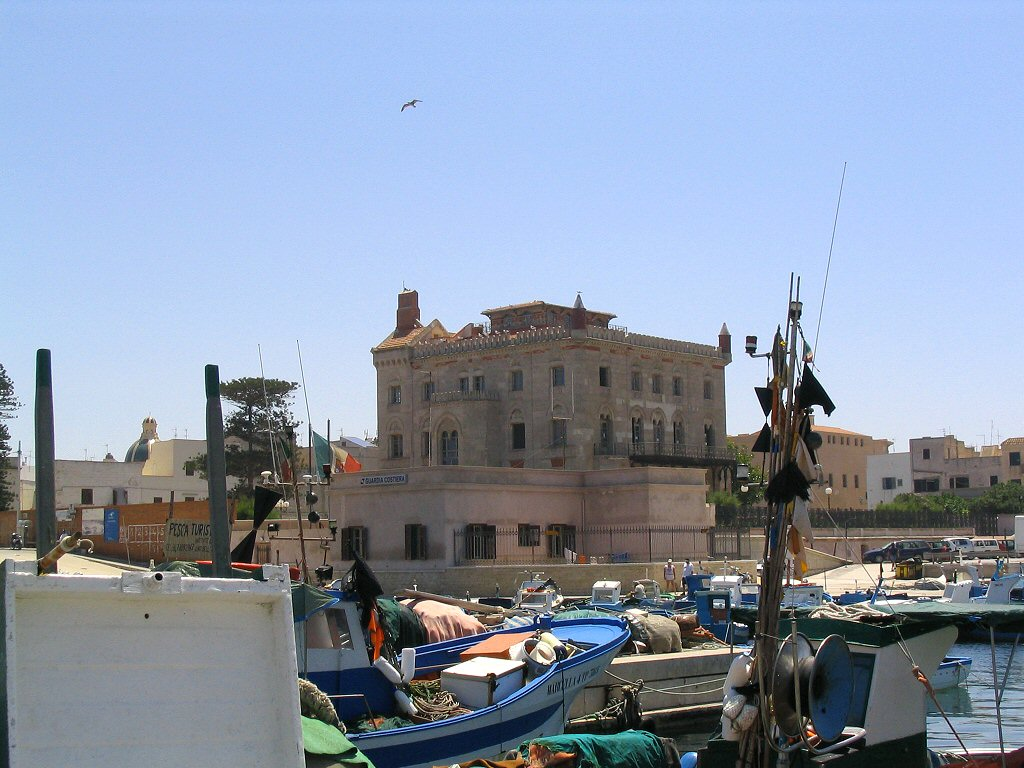 Palazzo Florio visto dal porto